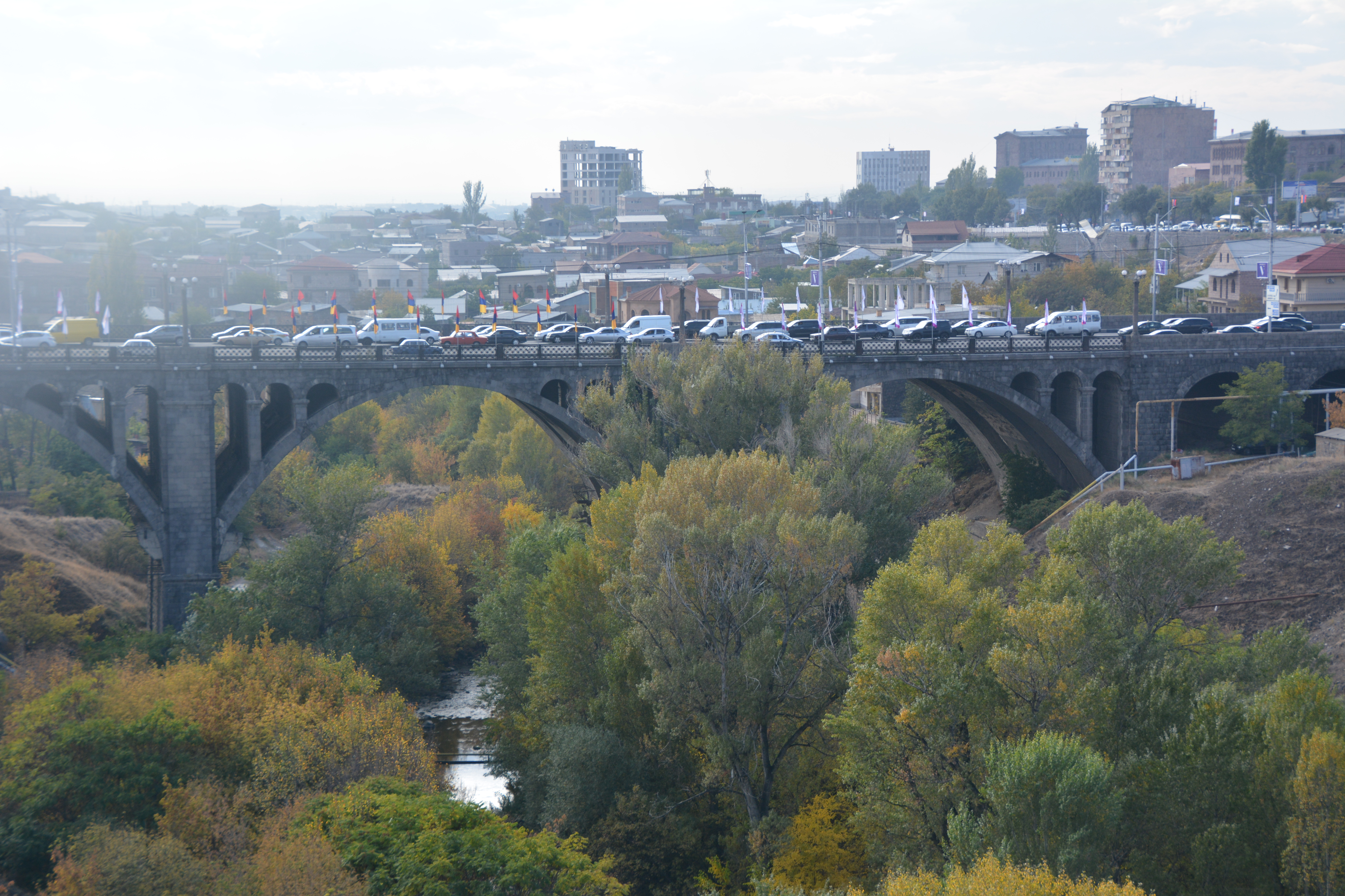 Victory bridge in Yerevan, from north